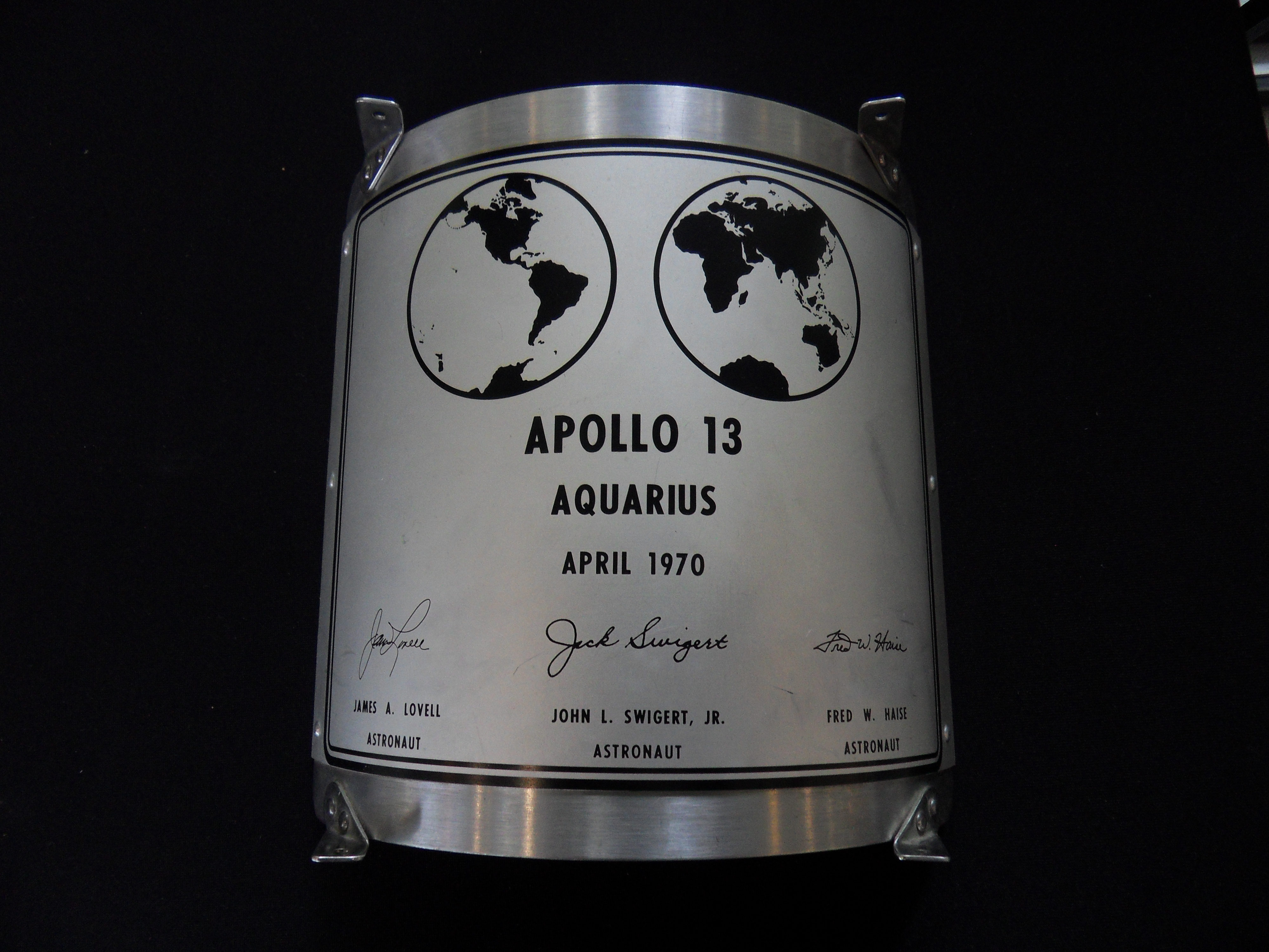 "Each of the Apollo Lunar Modules (LM) slated to land on the moon bore a curved plaque around one of its legs. This is a replica of the plaque intended for the Apollo 13 LM, Aquarius. It was to replace the plaque already bolted to the LM, which had the name of astronaut T.K. Mattingly. He was replaced by Jack Swigert days before the mission launched. Since the lunar landing was cancelled, the plaque was never updated."